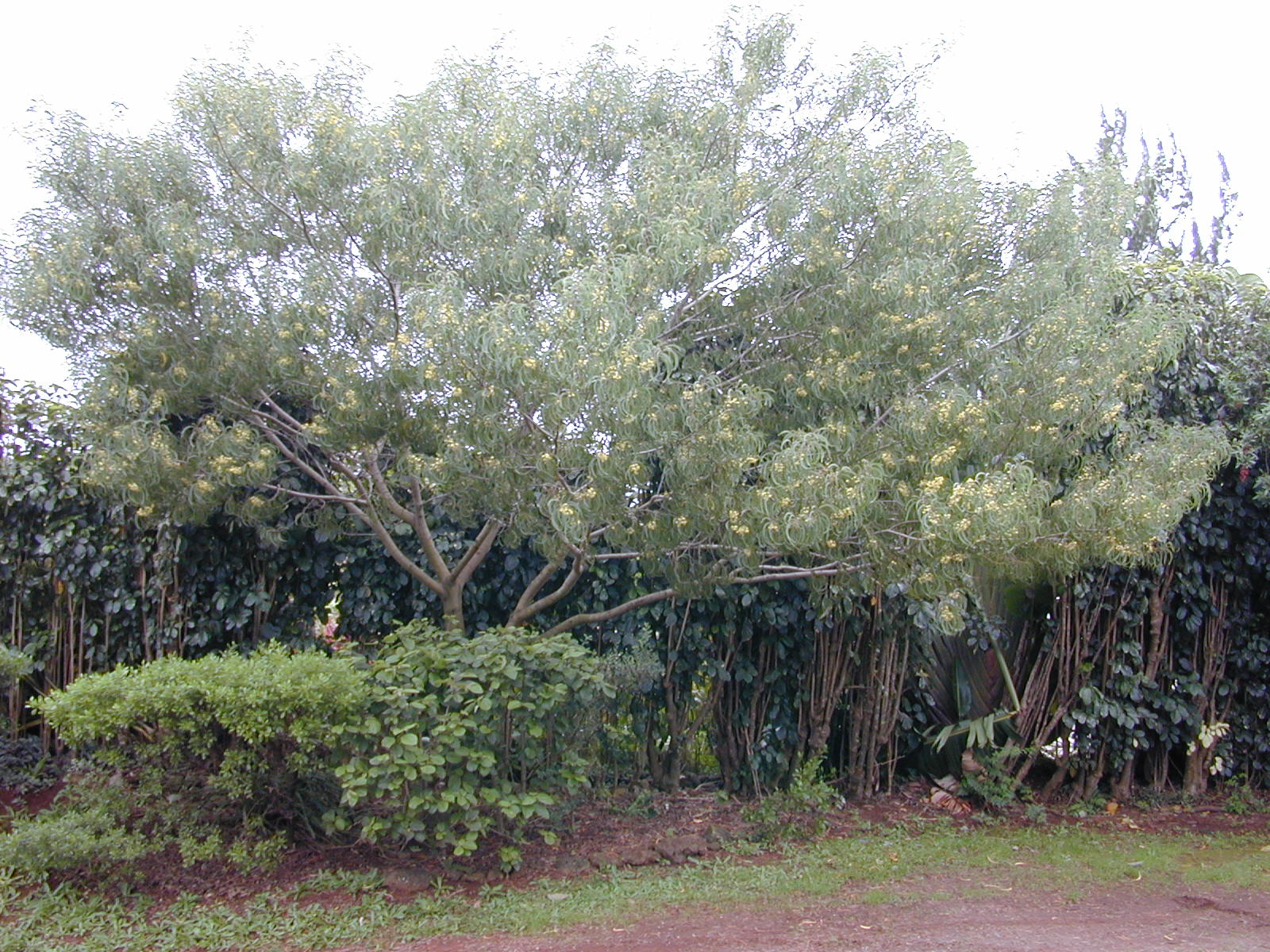 Acacia koaia (flowering habit). Location: Maui, Makawao